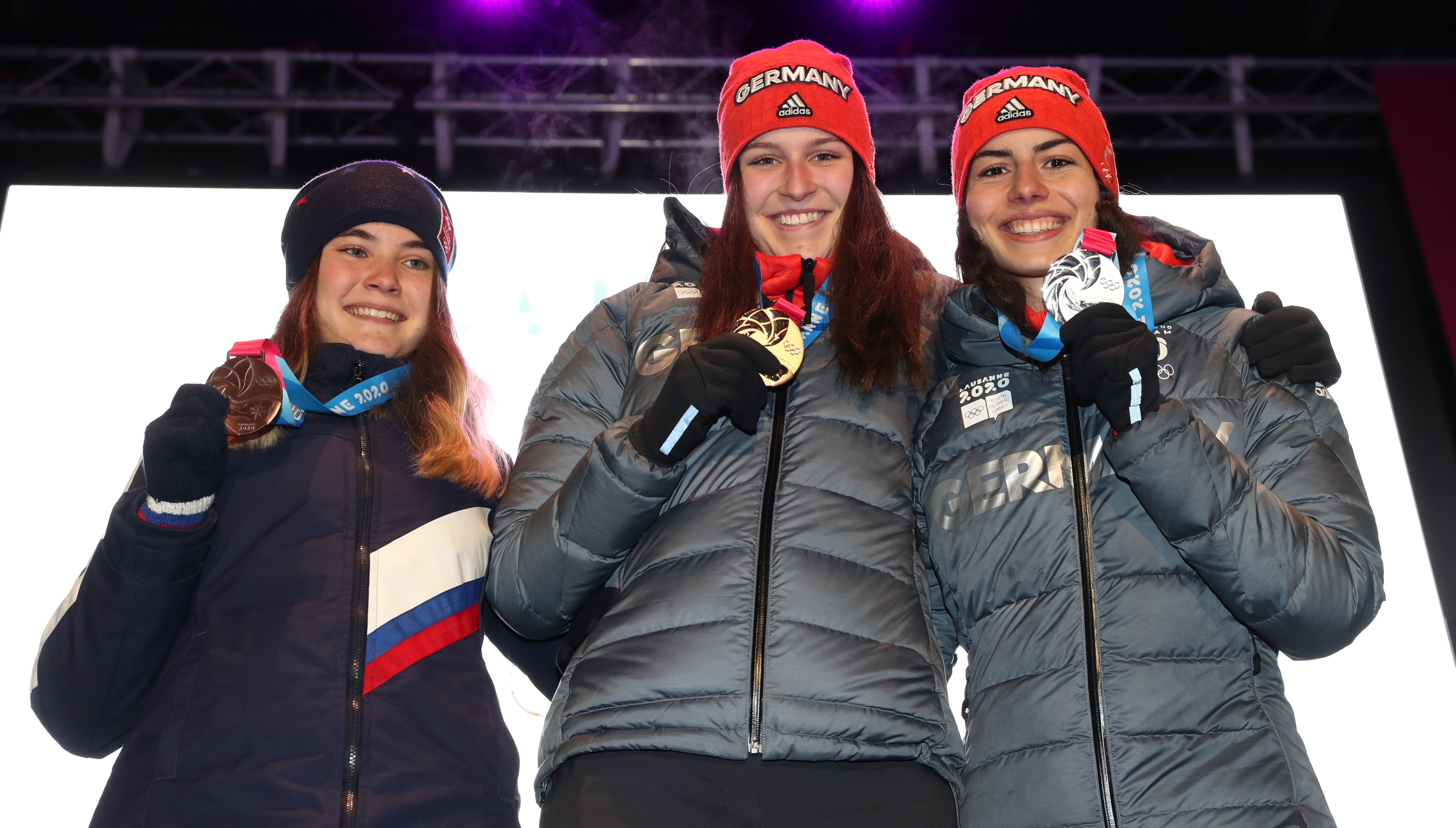 Medal Ceremony Day 9 in St. Moritz, 2020 Winter Youth Olympics in Lausanne